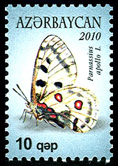 The Butterflies. Definitive issue.